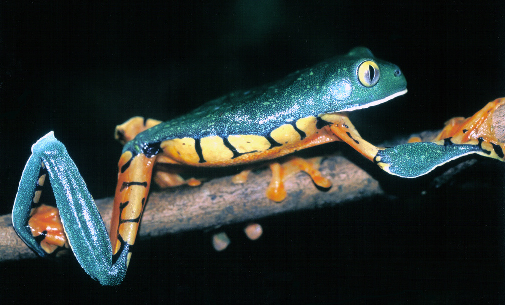 Cruziohyla sylviae from Rus Rus, Gracias a Dios, Honduras. 180 m elevation.